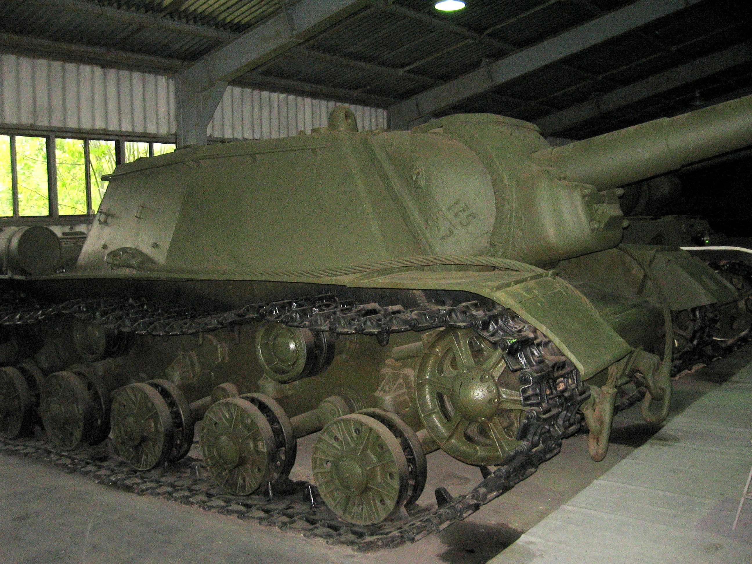 Heavy self propelled gun SU-152, displayed in Kubinka Tank Museum